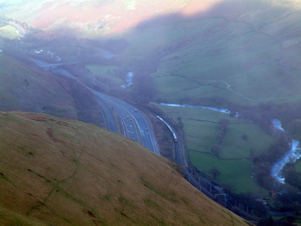 Lune Valley from near summit of Grayrigg Forest, with M6 motorway and West Coast Main Line railway. Photograph by Stephen Dawson, 31 December 2004